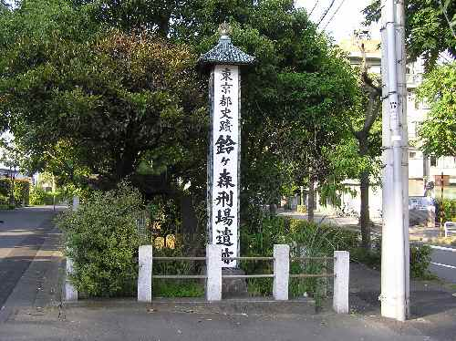 Suzugamori execution grounds in ancient Edo (Tokyo).